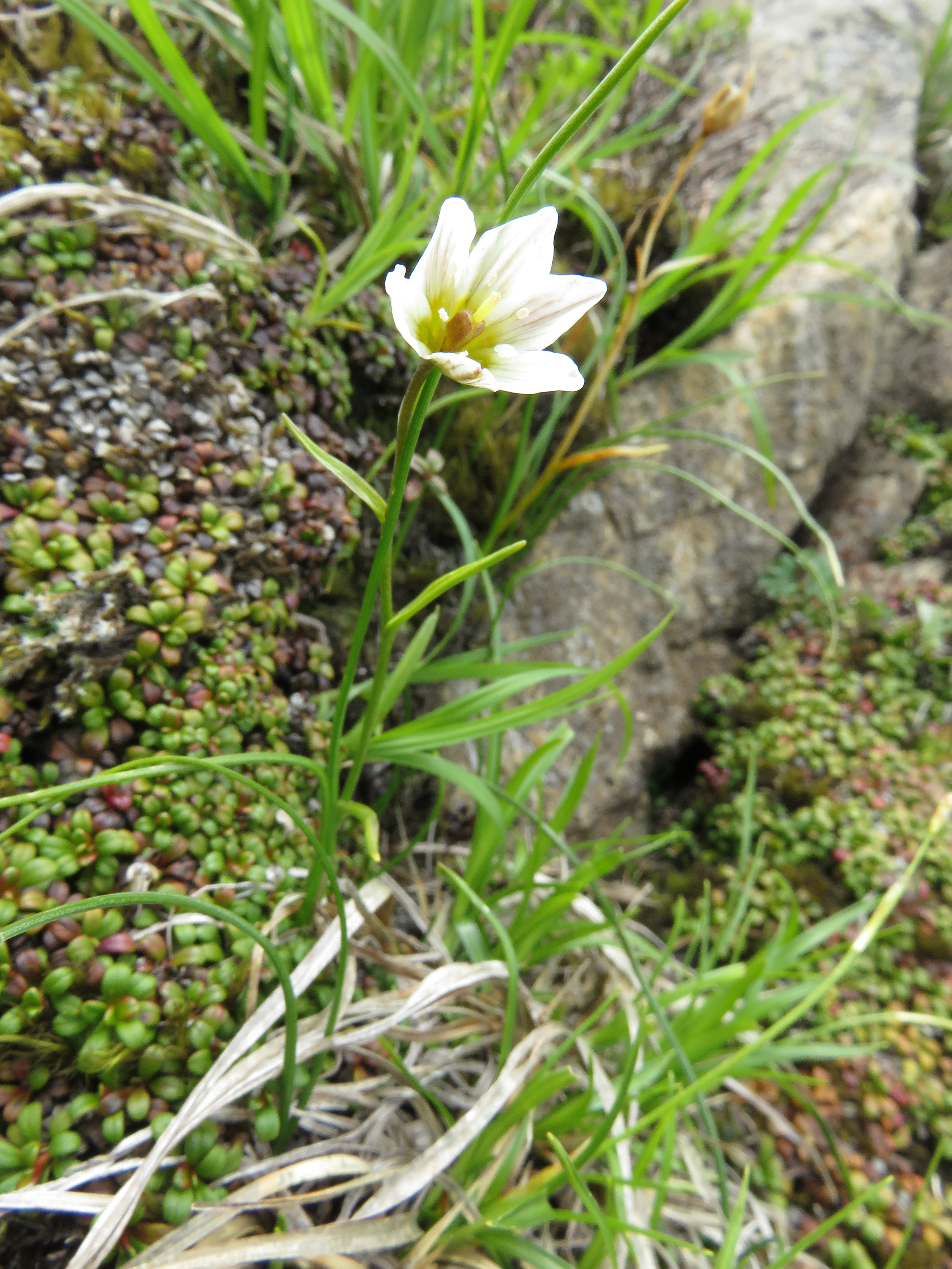 Lloydia serotina, Mount Hayachine, Iwate pref., Japan